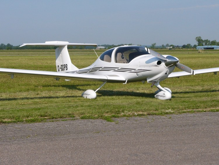 Photo of a Diamond DA40 Diamond Star (C-GSPB). I took this photo.